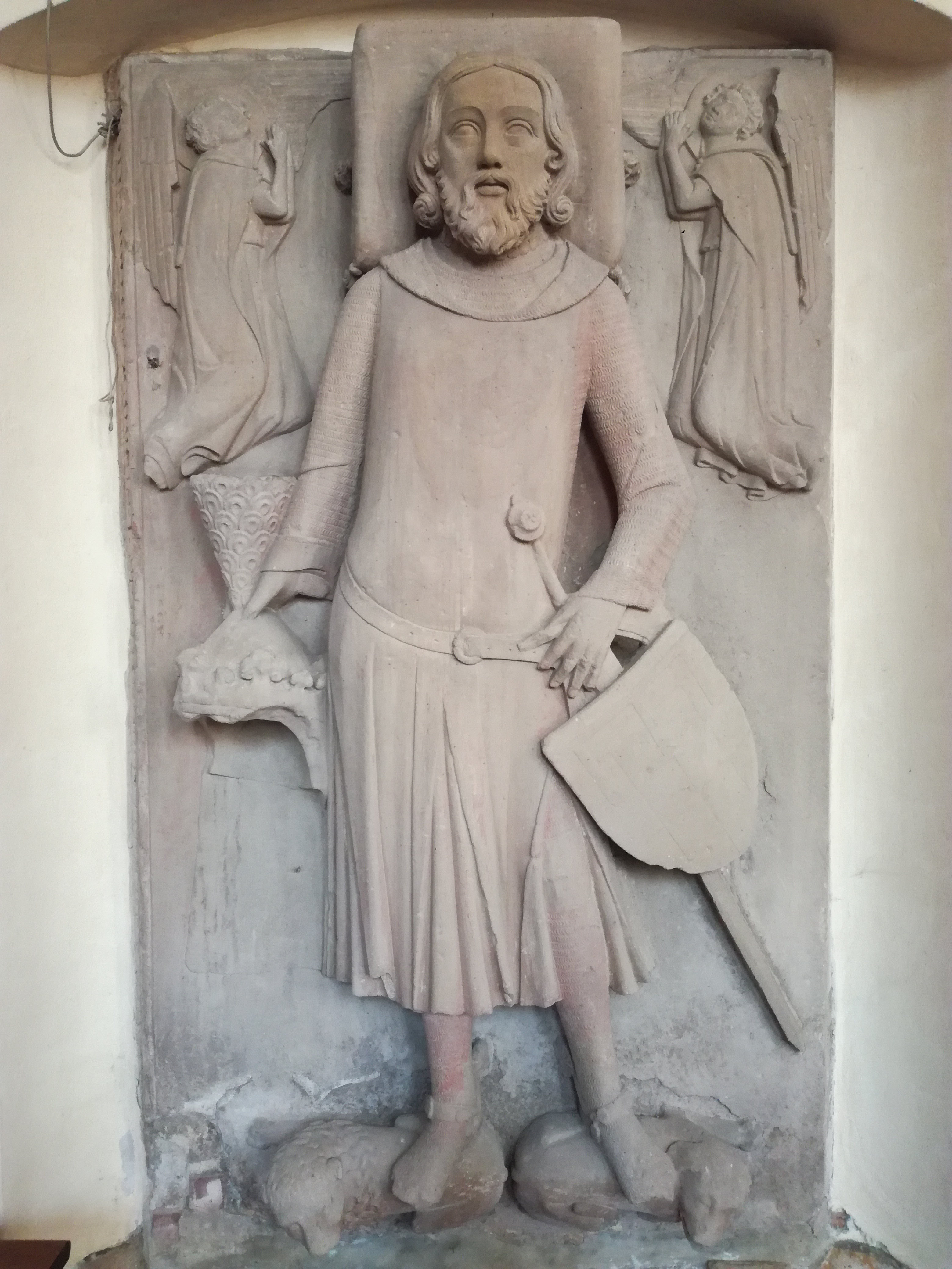 tomb cover with depiction of John II, Count of Sponheim-Kreuznach († 1340)